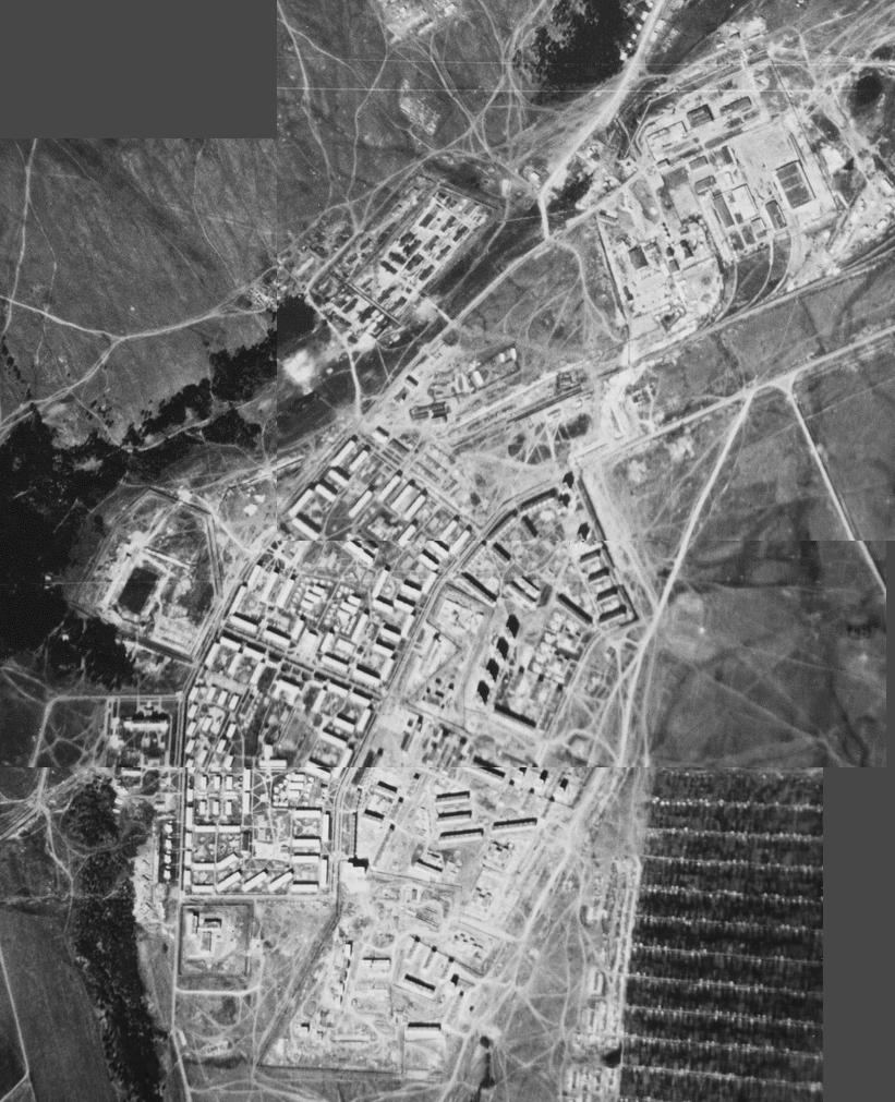 Composite Corona imagery of the Stepnagorsk Scientific and Technical Institute for Microbiology.